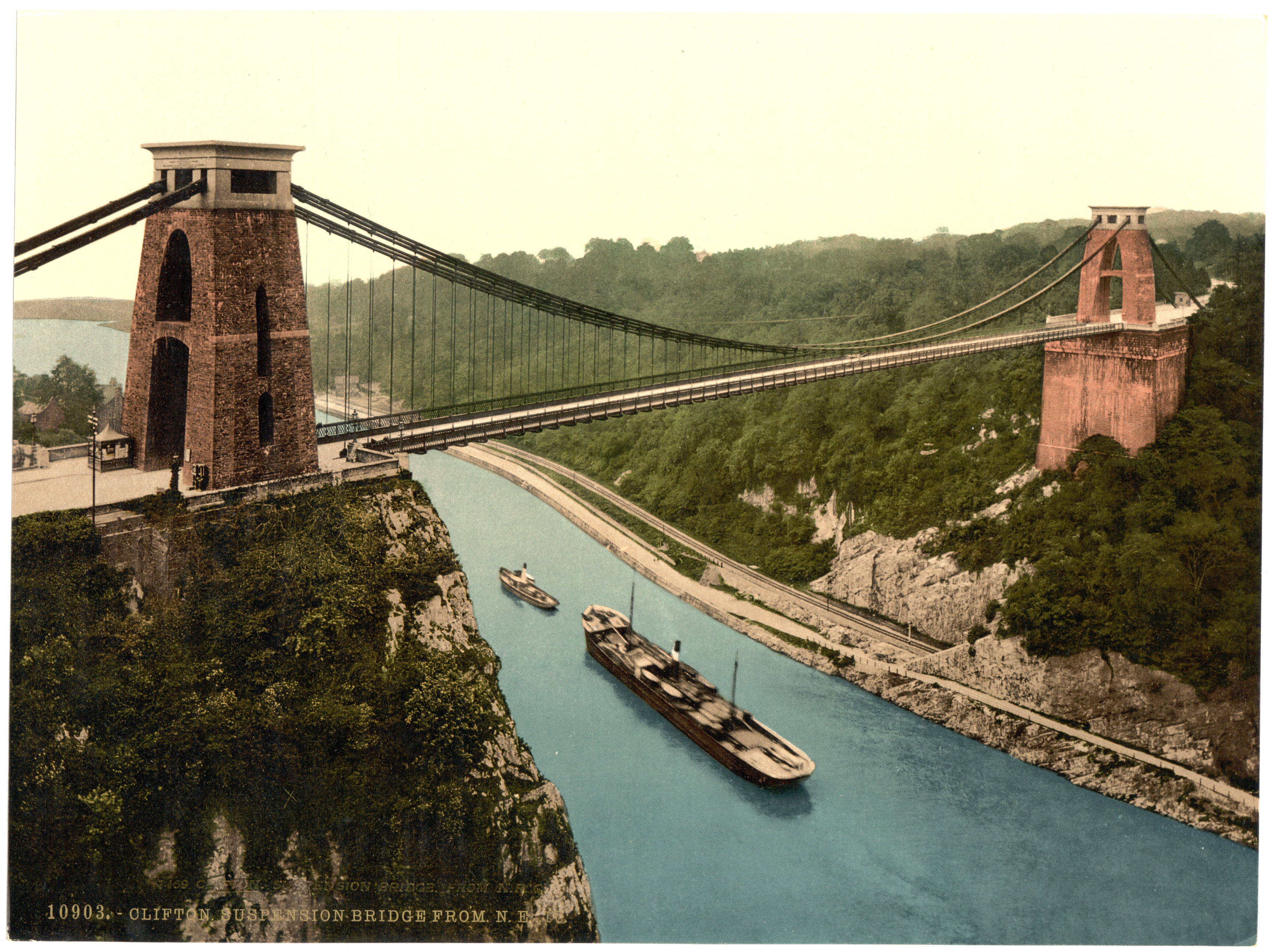 Photochrom of Clifton Suspension Bridge. Part of a series of four.